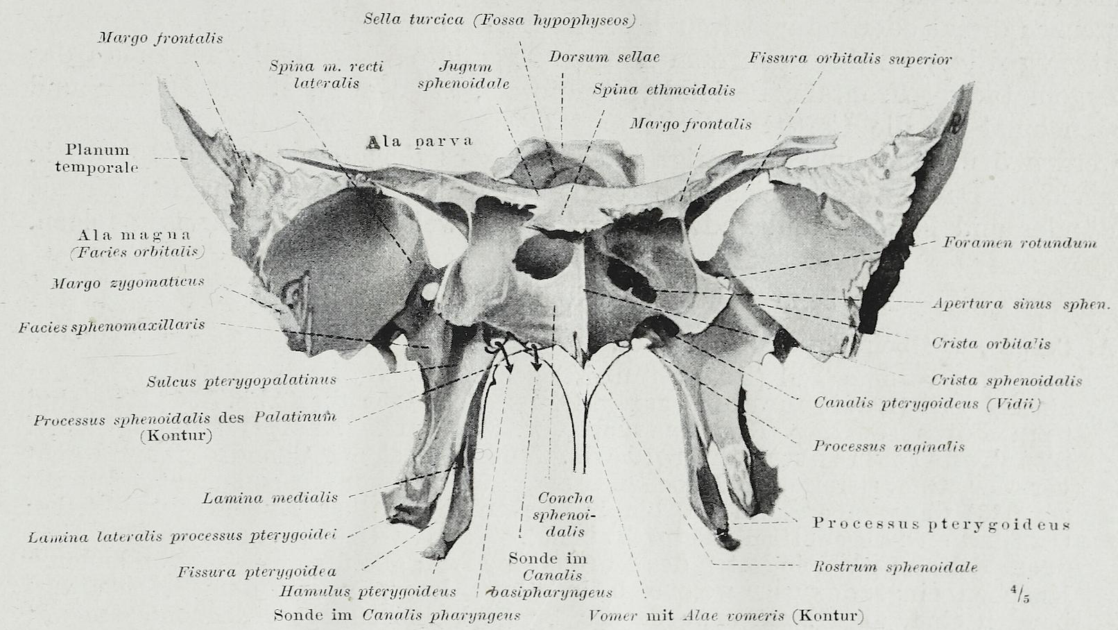 An anatomical illustration from the 1921 German edition of Anatomie des Menschen: ein Lehrbuch für Studierende und Ärzte with latin terminology.